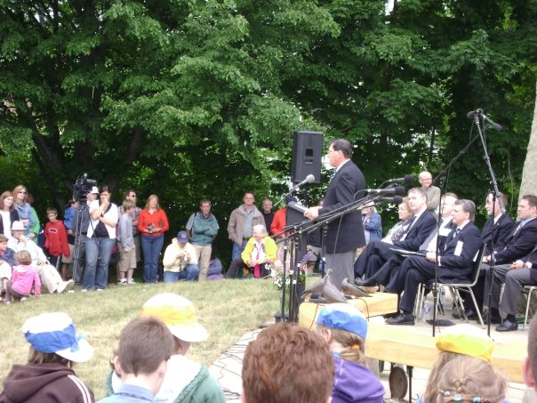 Bev Harrison